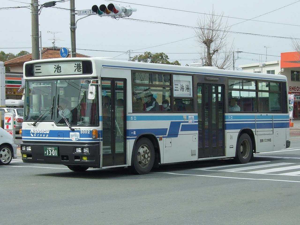 Hino Motors KC-HT2MMCA with Nishinippon Shatai Kogyo body for Nishitetsu Bus Omuta HQ transit bus (in-company code: 3002), with license plate: Kurume 22 KA 1301, at Mikawamachi-itchome intersection in Omuta City, Fukuoka Prefecture, Japan